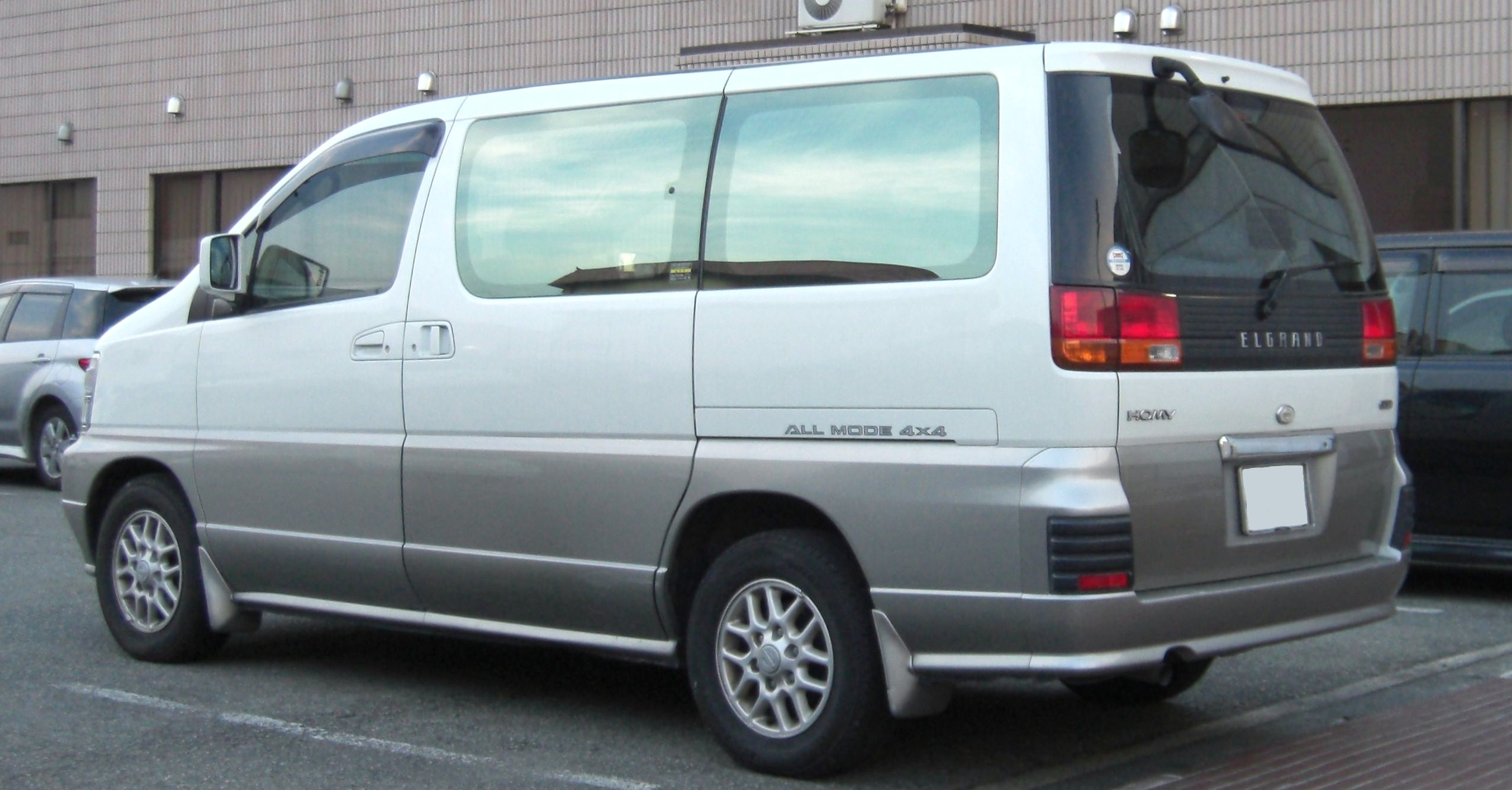 NISSAN Homy Elgrand